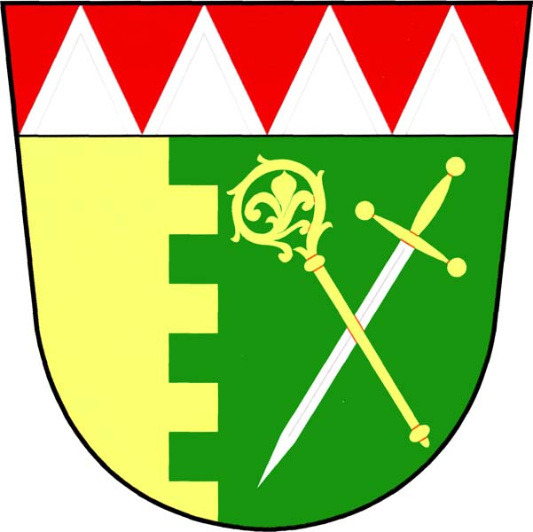 Municipal coat of arms of Dřevčice village, Prague-East District, Czech Republic.